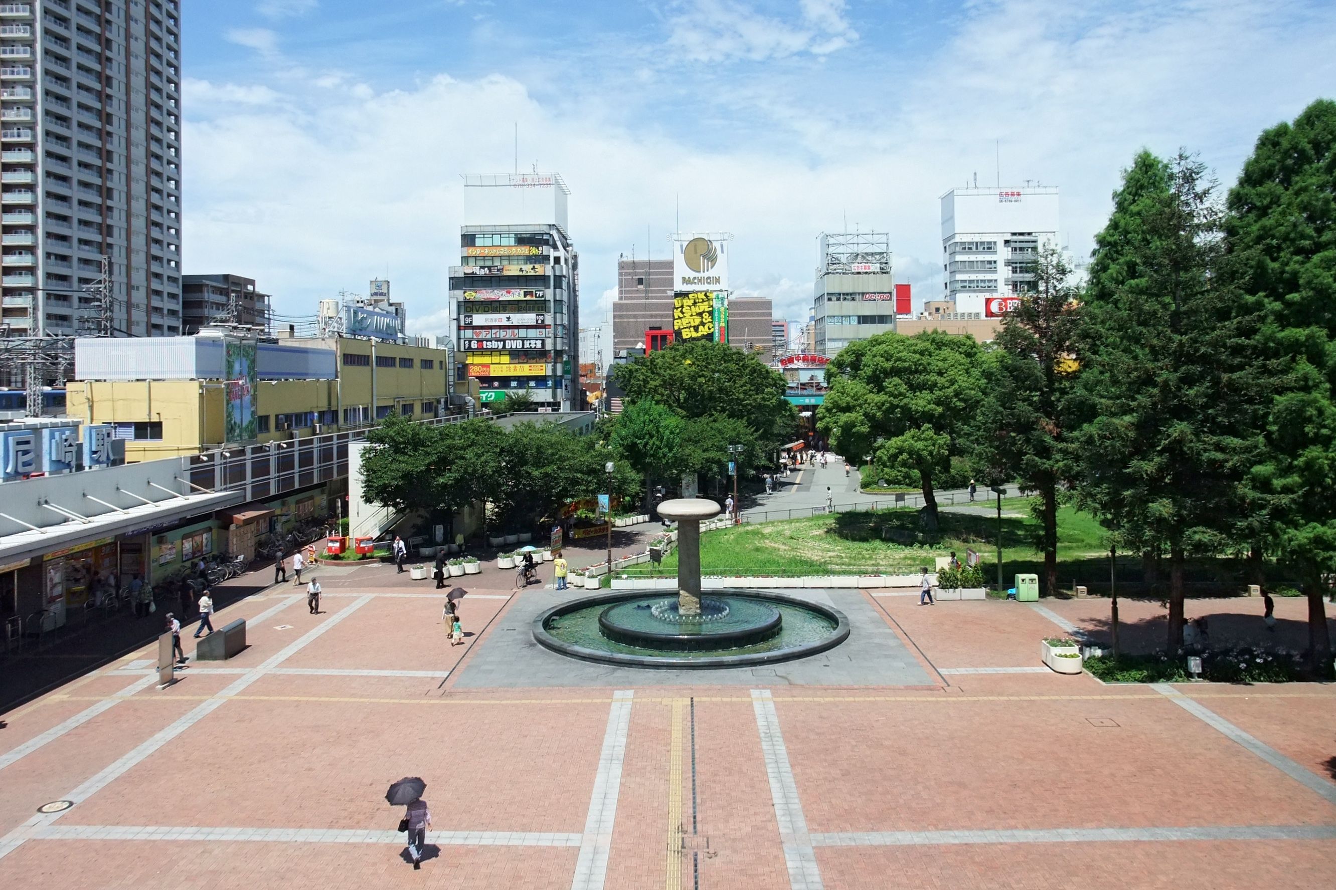 Amagasaki Station (Hanshin) in Amagasaki, Hyogo prefecture, Japan